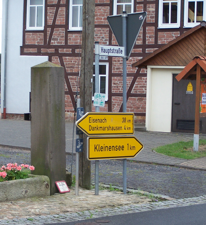 A historical stone in Großensee at a roadcrossing.